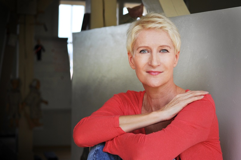 Czech writer and poet, Sylva Lauerova